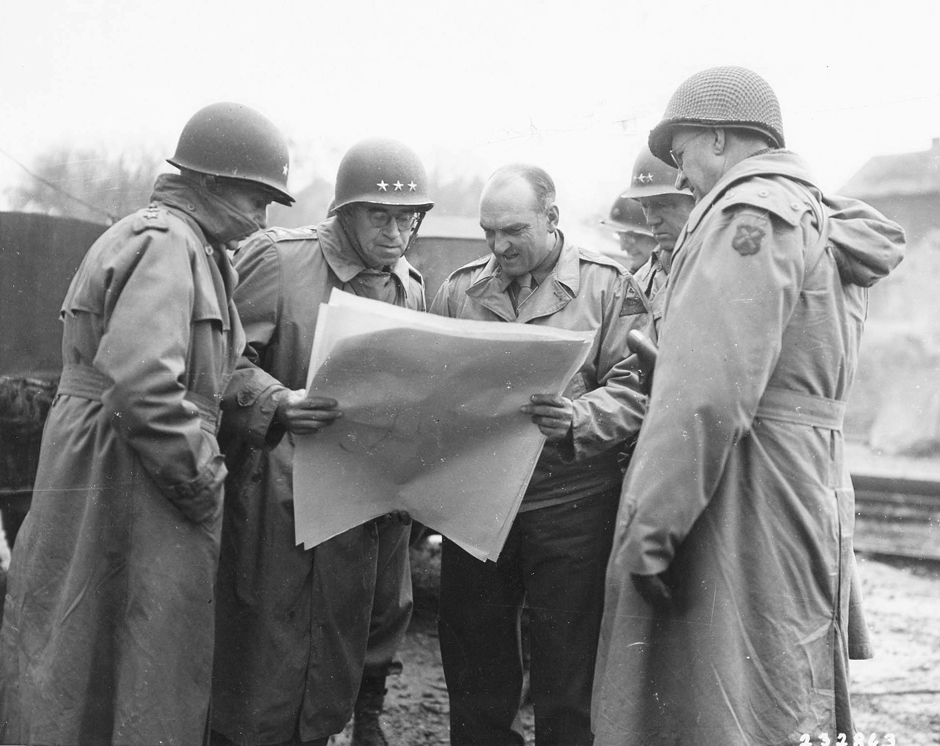 From left to right: Unknown MG, LtGen Omar Bradley, MG John S. Wood, LtGen George Patton, and MGen Manton Eddy being shown a map by one of Patton’s Armored Battalion Commanders during a tour near Metz, France